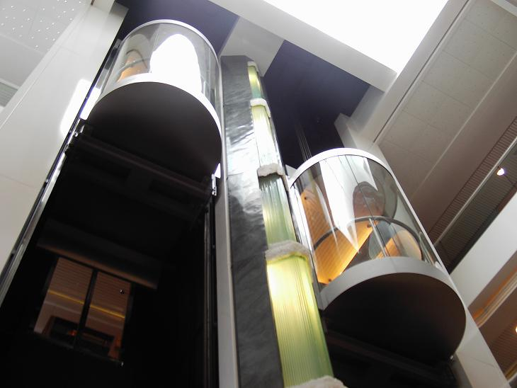 Lift Atrium of the Brittany ferries flagship the Pont-Aven